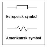 Resistor symbols, American and European